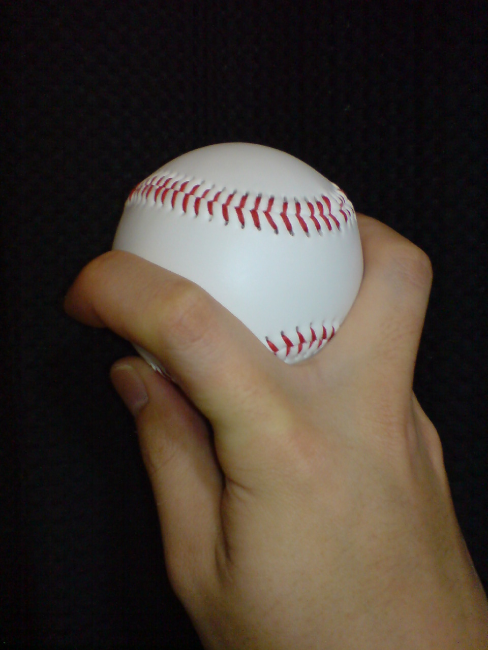 Folkball